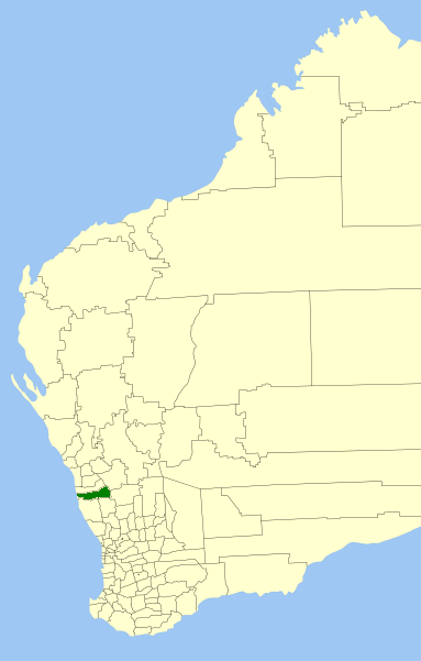 Description=Location of the Local Government Area in Western Australia